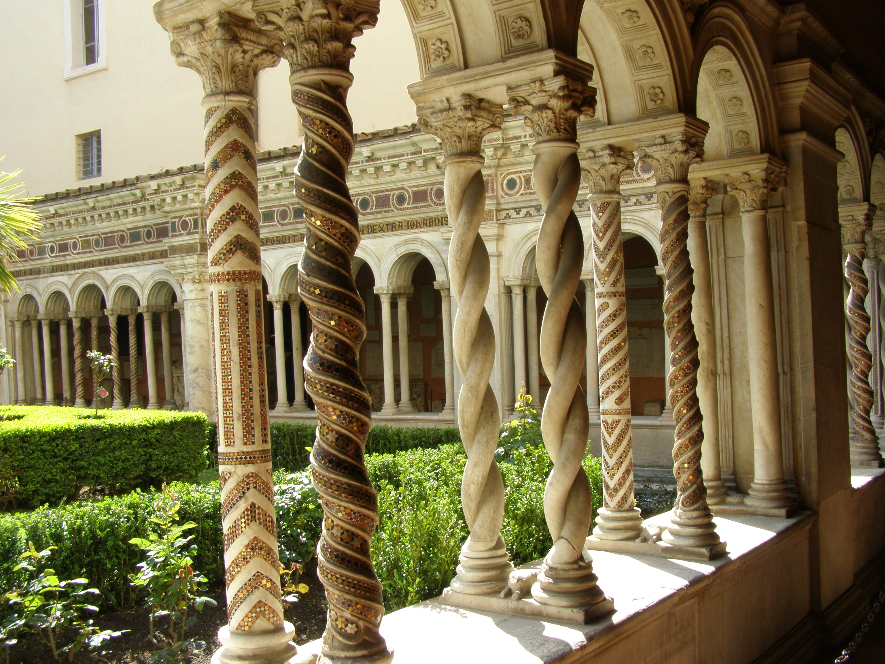 Cloister of Basilica di San Paolo Fuori le Mura, Rome